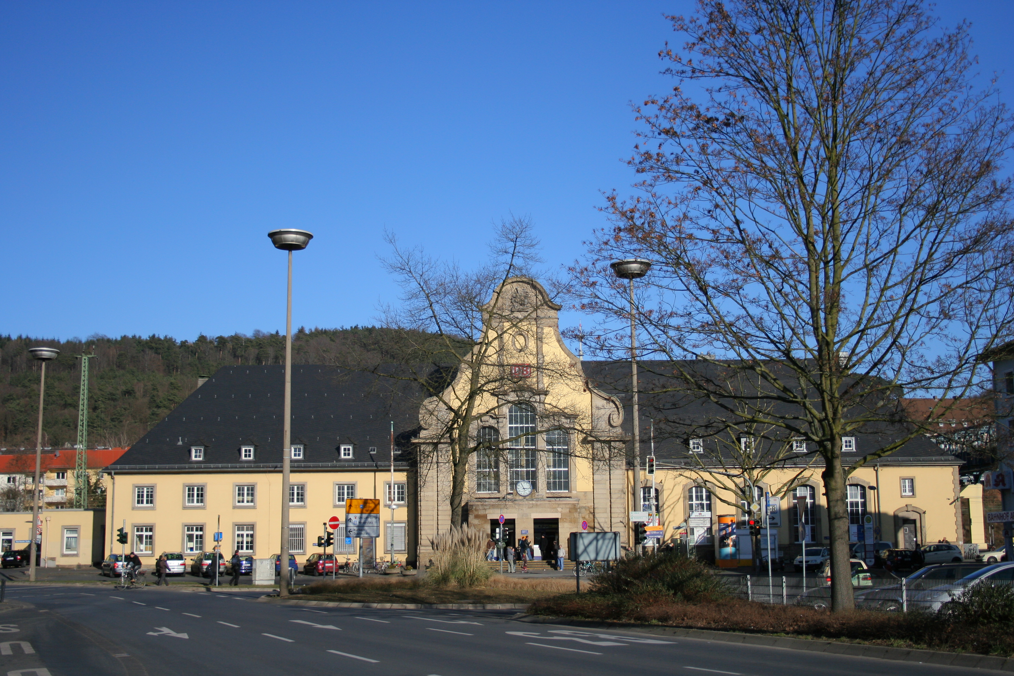 Marburg Central station, Hesse, Germany